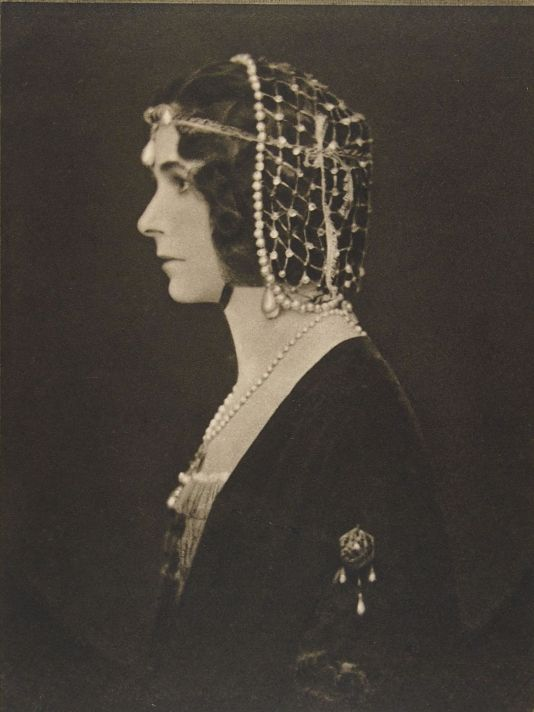 Photograph from The Book of Fair Women by E.O. Hoppé (1922)